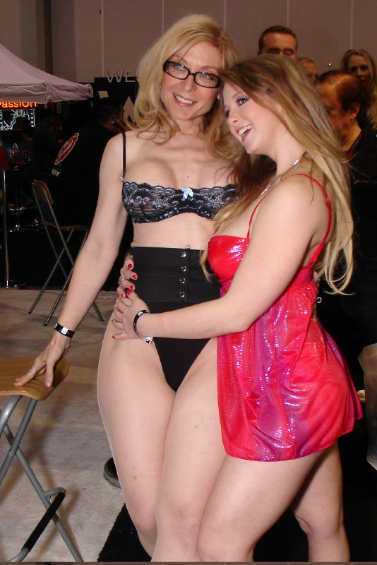 Nina Hartley & Sunny Lane